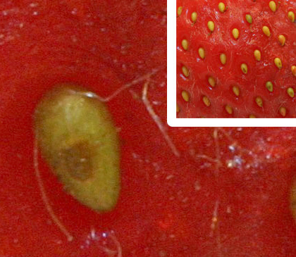 This documents the achene as the seed-like fruit commonly called a "seed" on a strawberry... I made this from same license